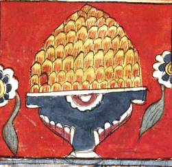 jewel heap of 14 auspicious dreams in Jainism